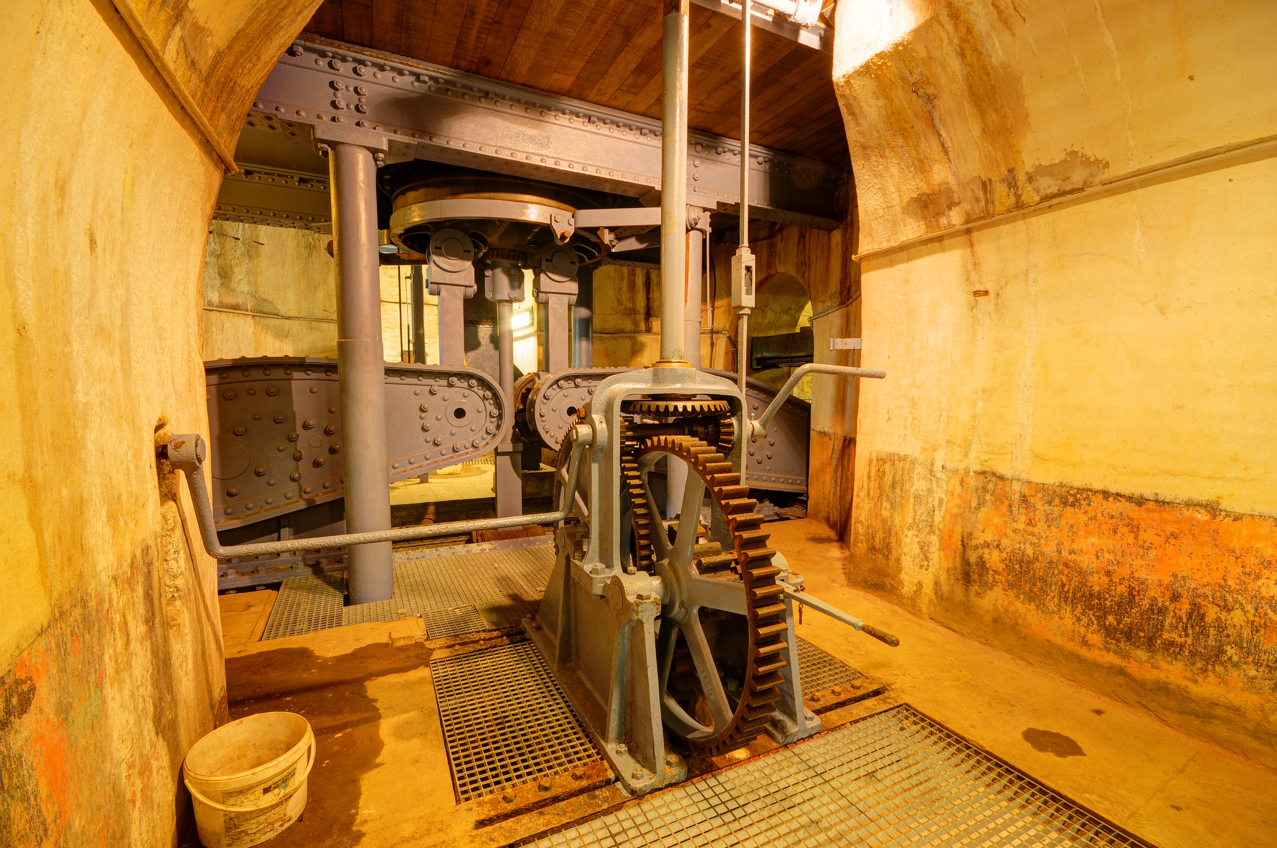 This photograph was taken with a Nikon D300 Batterie de l'Eperon : mécanisme de la tourelle de 155 L (HDR).